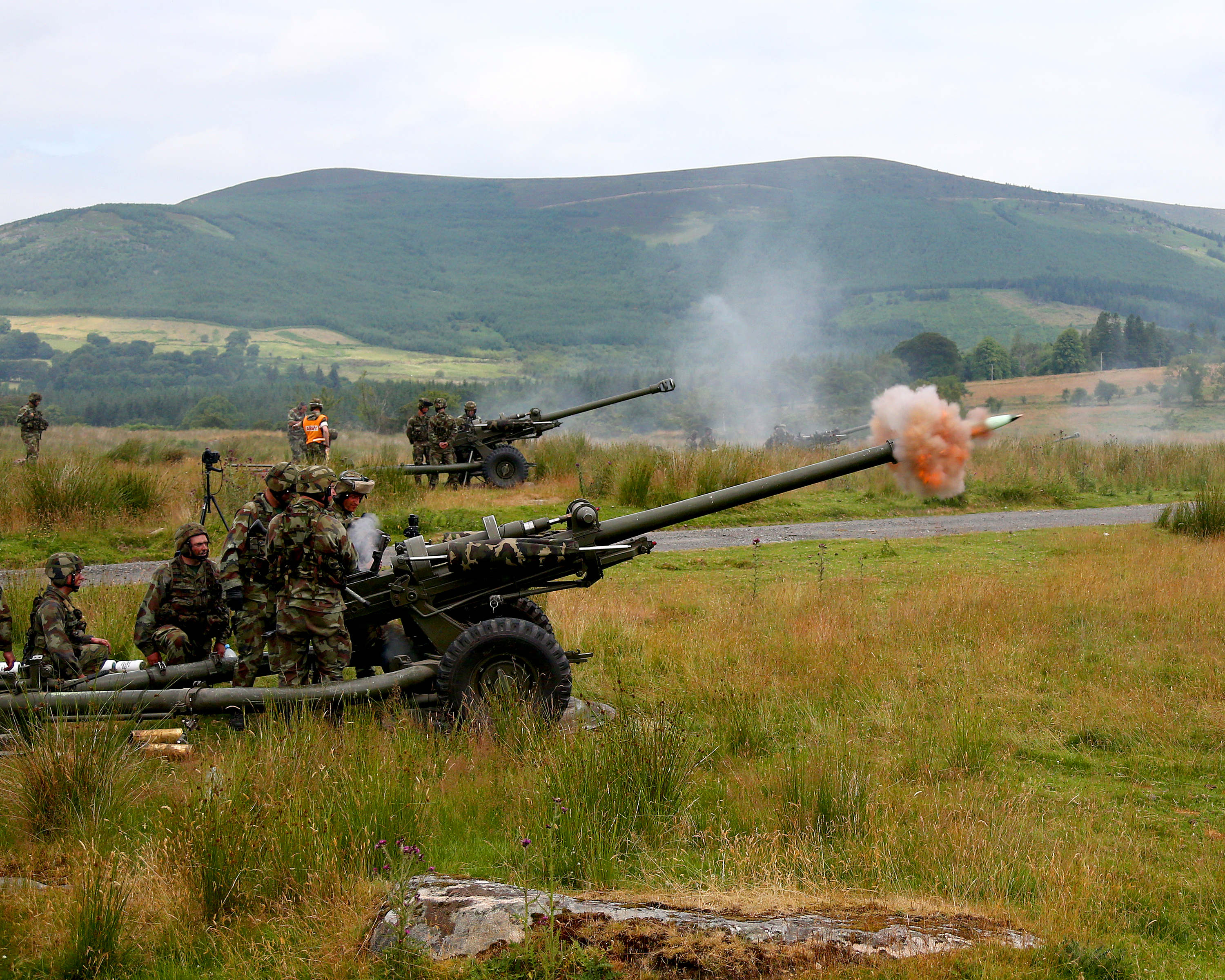 A battery of 105mm Artillery Guns opens fire